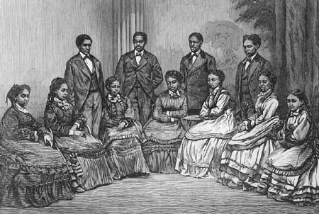 An engraving of the Fisk Jubilee Singers on their second European tour during the 1870s